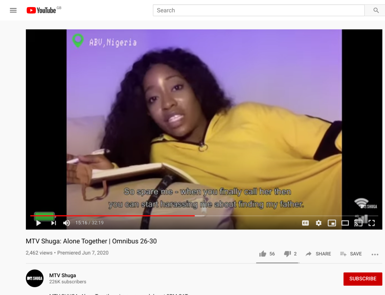 Scene from MTV Shuga Episode 25-30 in 2020